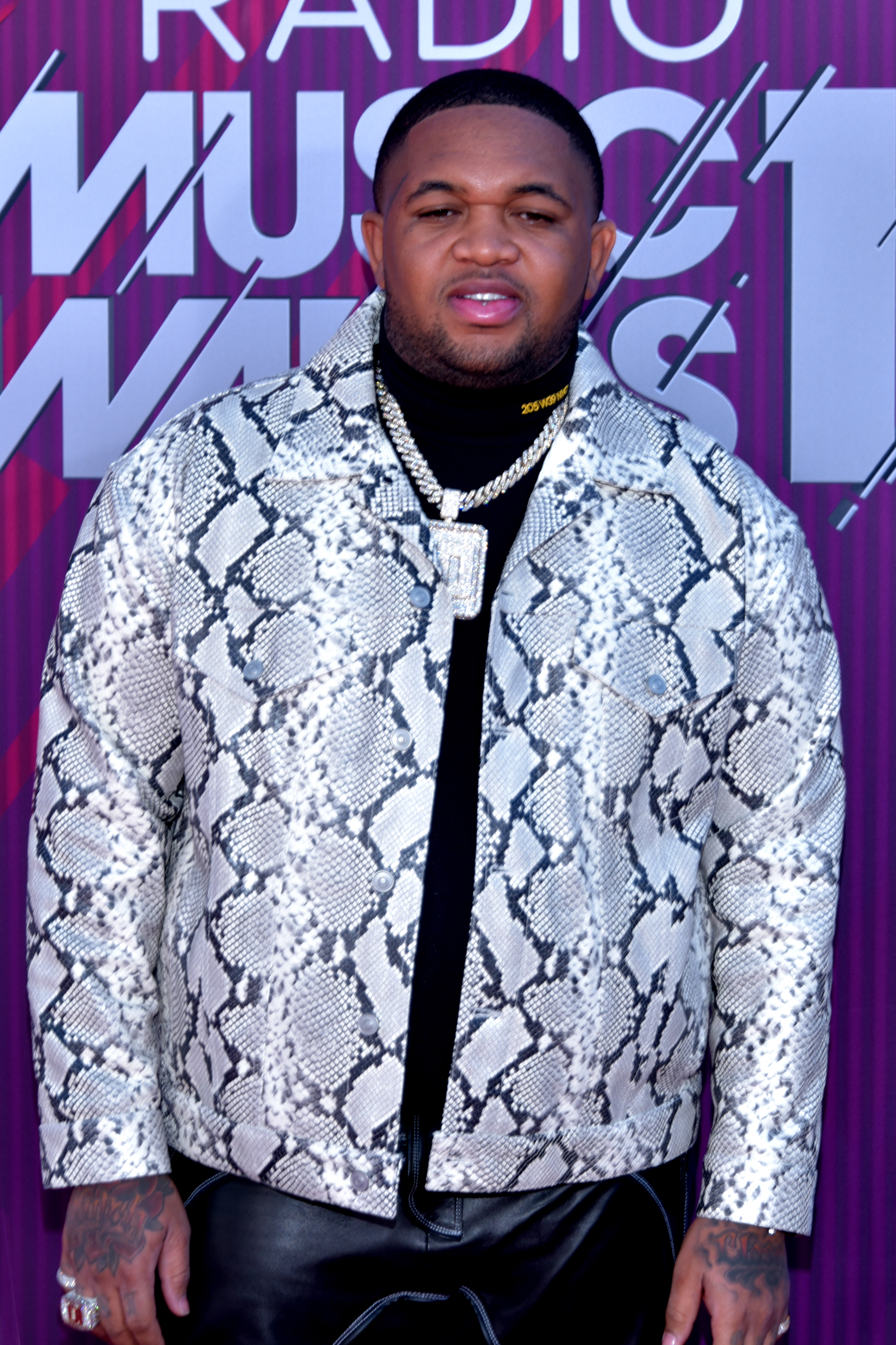 DJ Mustard at the 2019 iHeartRadio Music Awards in Los Angeles California on March 14, 2019 - Photo by Glenn Francis of